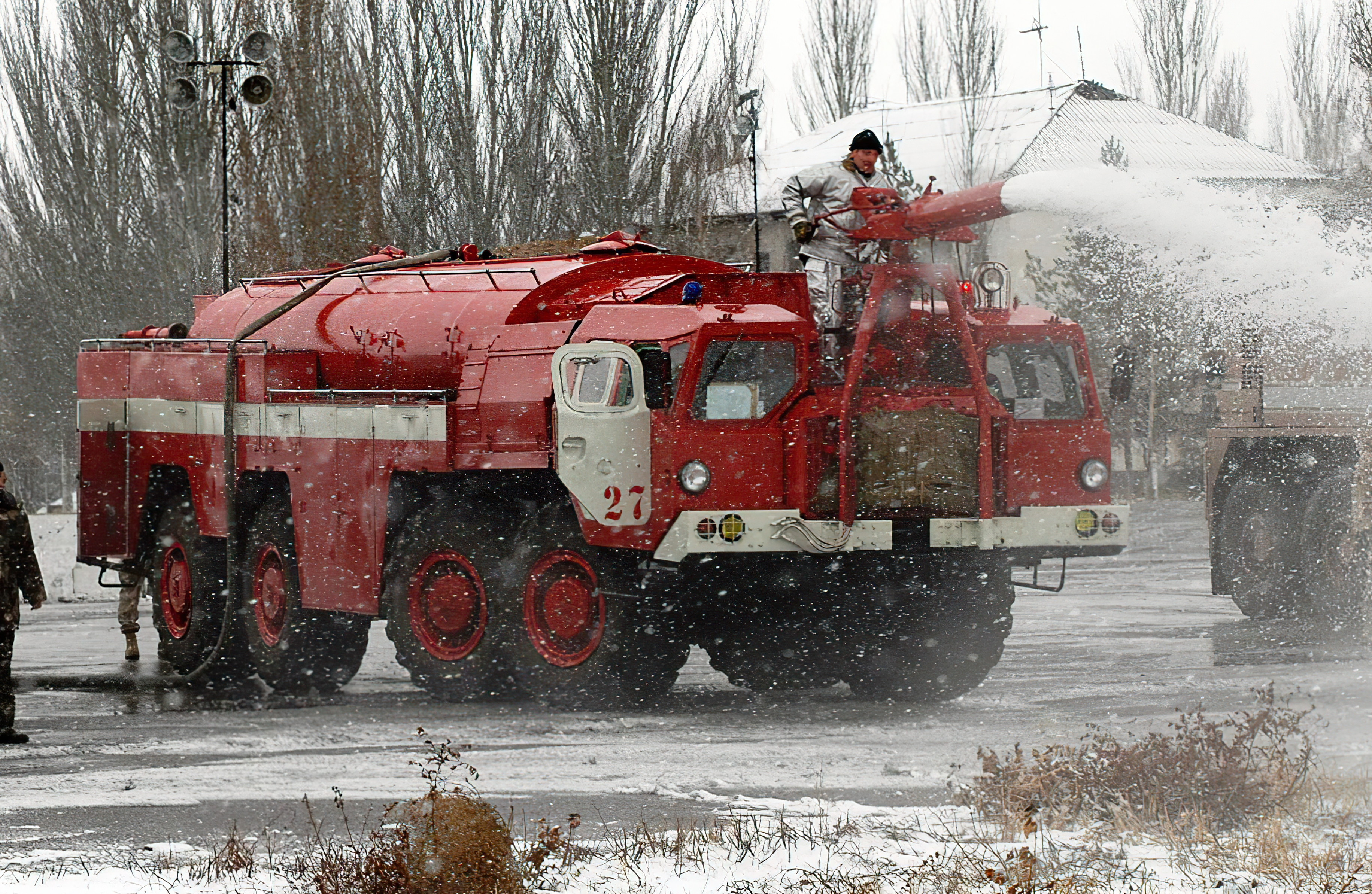 MAZ-7310 airport tender. (Image cropped out of this image)